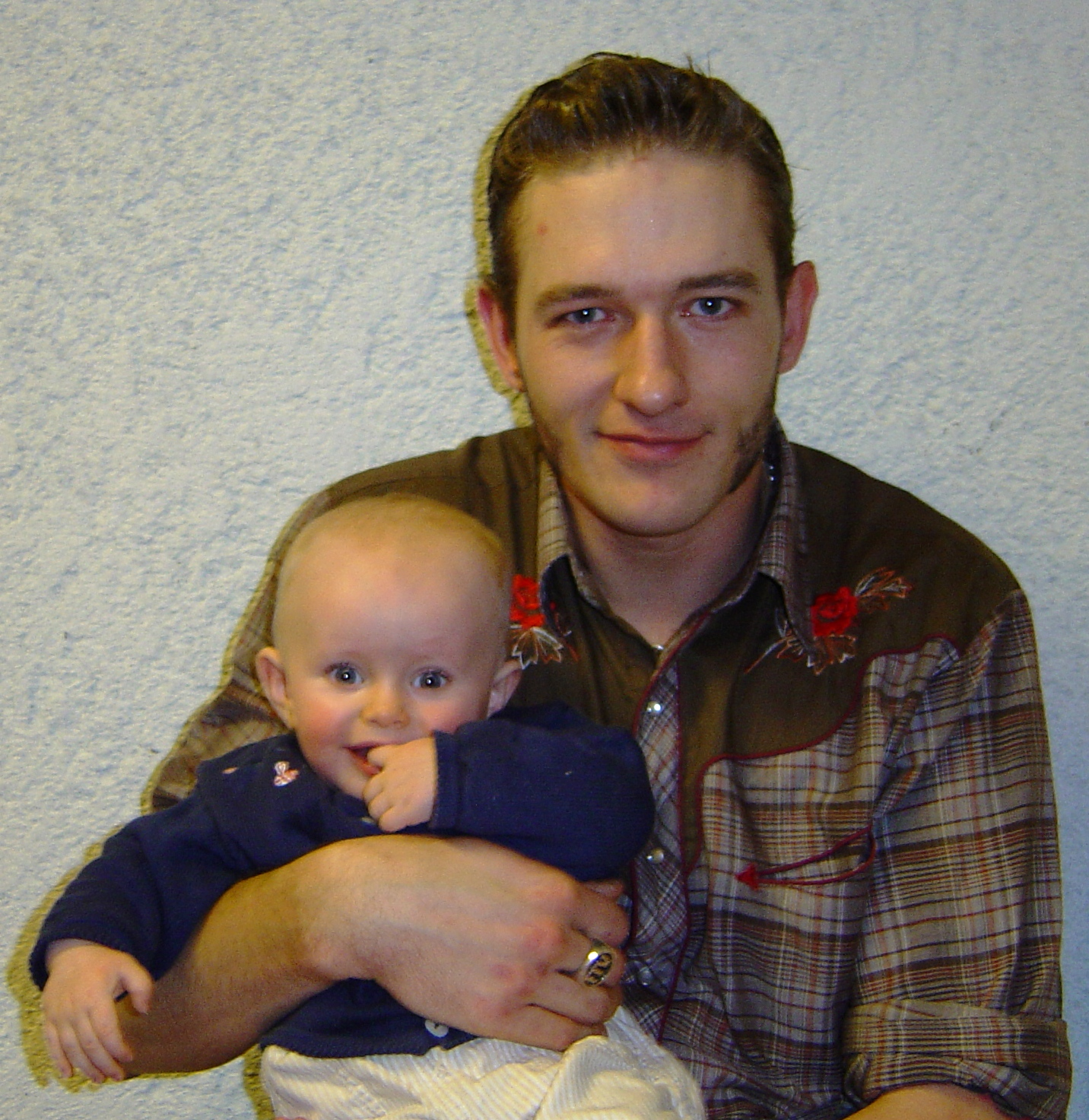 Kristopher Schau, Norwegian musician, comedian and TV-programme host